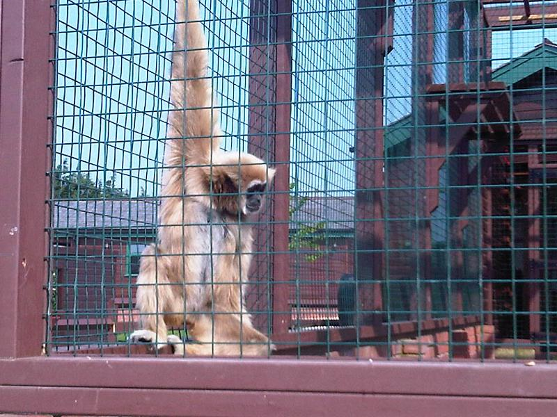 Lar gibbon (Hylobates lar) at Owl and Monkey Haven in Isle of Wight, England.